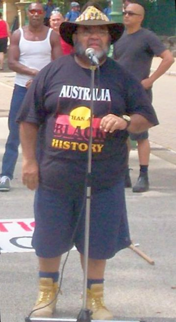 Aboriginal activist Sam Watson addresses the January 26th 2007 Invasion Day rally in Brisbane, Queensland, Australia